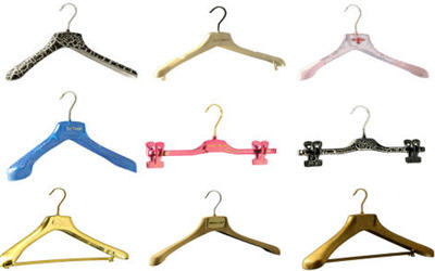 Special hanger for shops by Serviz group